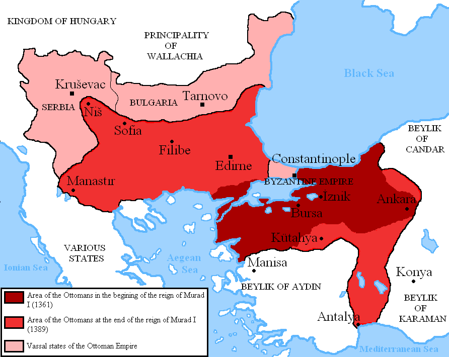 Map showing the area of the Ottoman Empire during the reign of Murad I and his conquests. I used the information of various historical books and these maps: [1] [2]